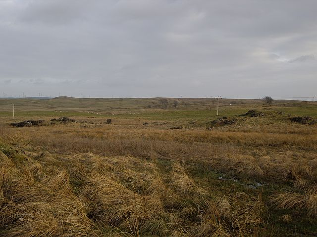 Carlin Craigs - cup and ring mark carvings Neolithic cup and ring mark carvings are pecked in to the outcrops in the foreground of this view looking across Kirktonmoor.